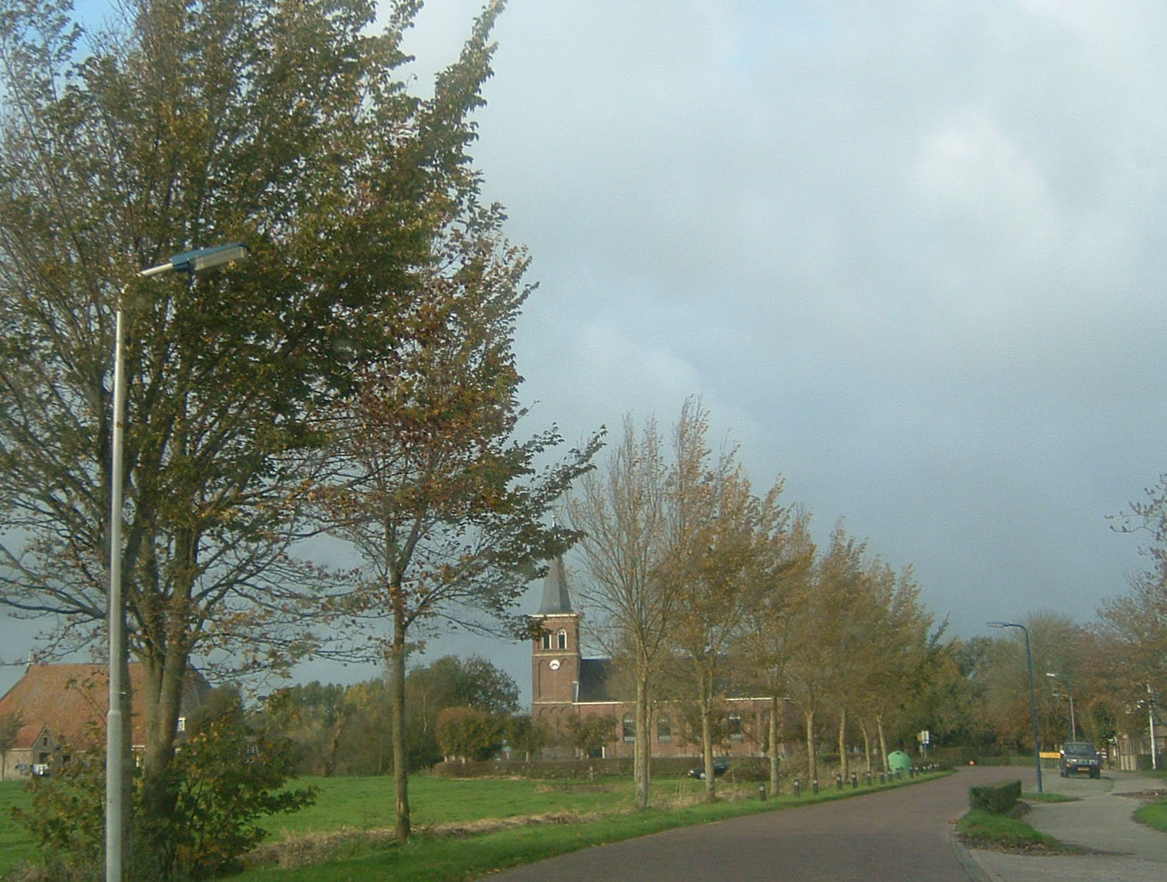 Own photograph of the small village of Jellum in Friesland (The Netherlands)